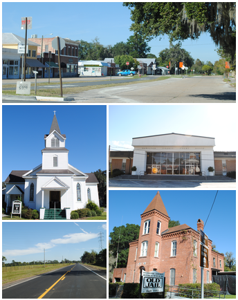 Photos I took around Jasper, Florida